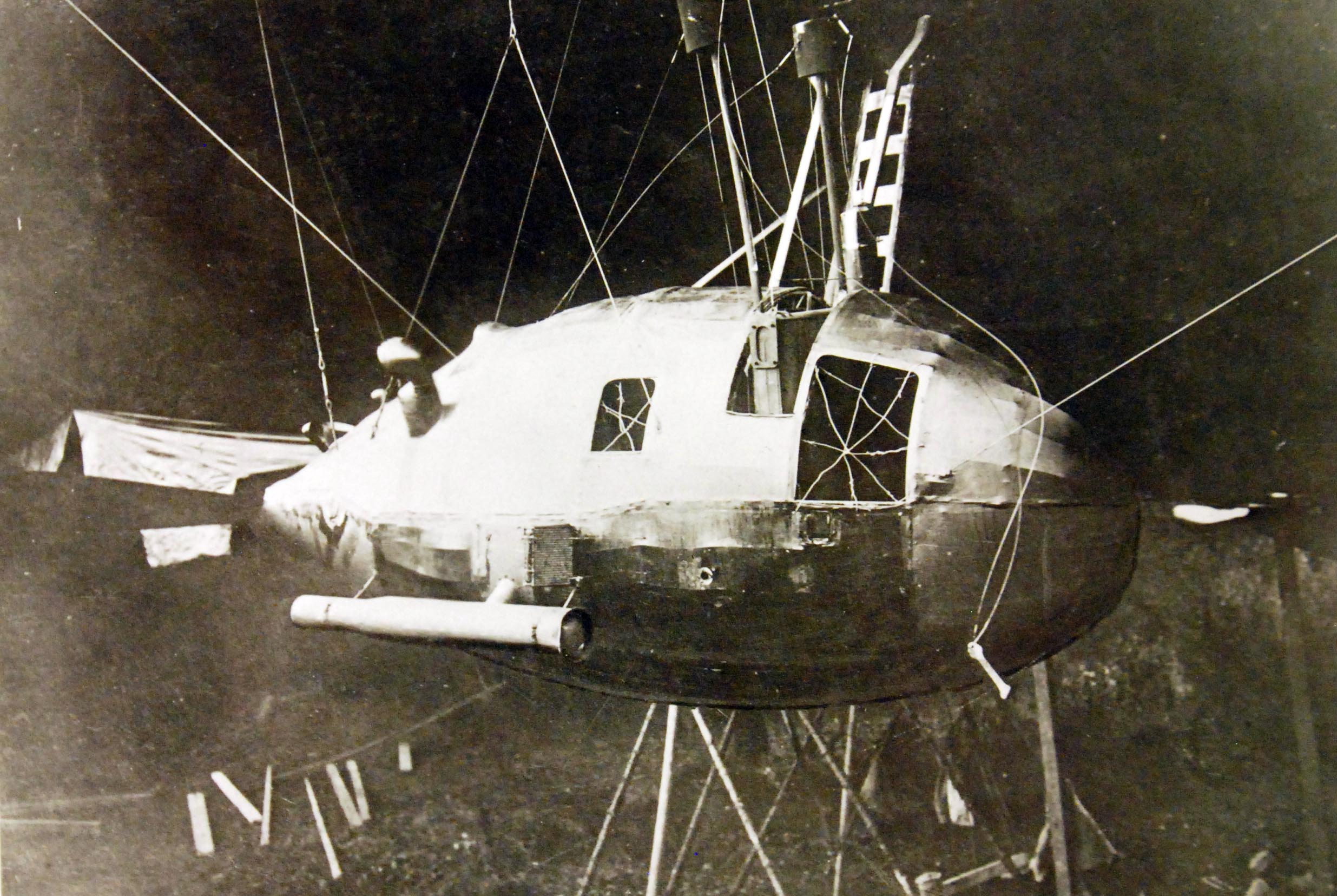 Lot-10465-3: German naval Zeppelin airship, L49, forced down during World War I by French pilots of Escadrille 152 at Bourbonne-les-Bains, France, when the crew succumbed to altitude sickness, October 20th, 1917. Courtesy of the Library of Congress. (2016/10/21).